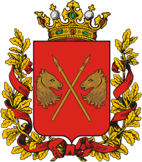 Coat of arms of Turgai Province, Russian Empire